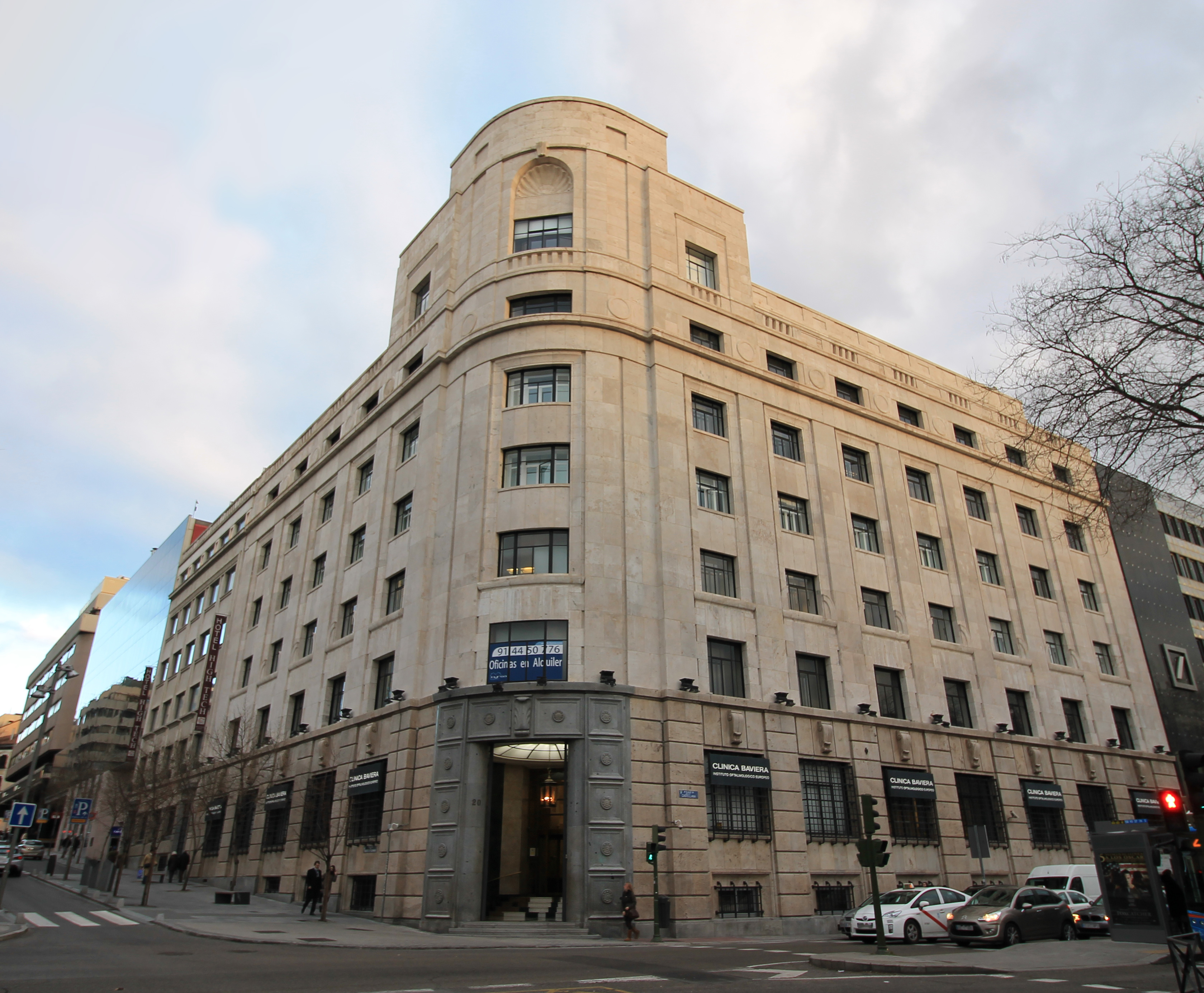 Office building at 20th Paseo de la Castellana (avenue) in Madrid (Spain). Designed in 1939 by Manuel Ignacio Galíndez Zabala and built from 1940 to 1942. It is home to Ebro Foods' head offices.